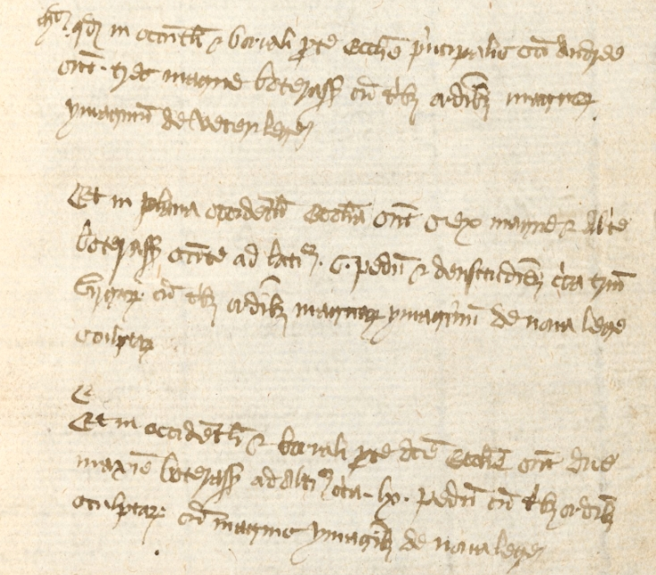 Willelmus Worcestre, Itineraria (MS. CCCC Parker 210) p. 211 media